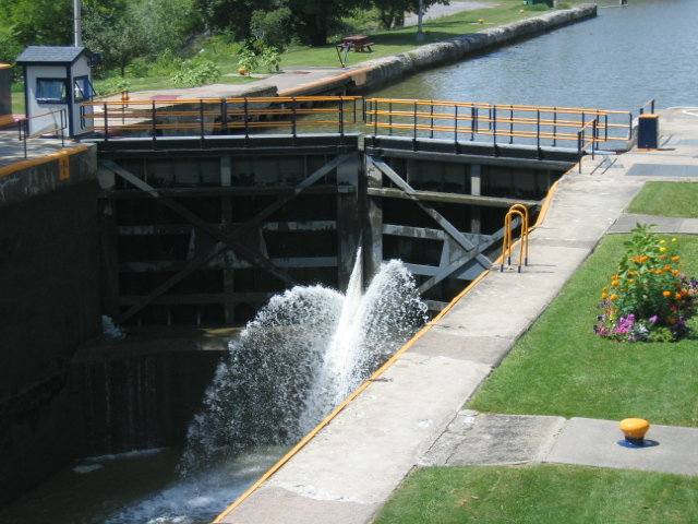 Erie Canal, Upstream view of the downstream lock (Lock 32, Pittsford, NY) showing some gushing water.